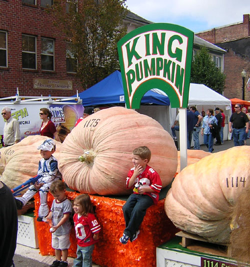 Picture of some children posing with the "King Pumpkin" at the Barnesville Pumpkin Festival in Barnesville, Ohio, on September 27, 2008. Barnesville's Pumpkin Festival is an annual festival that began in 1964. The "King Pumpkin" is located near the intersection of Main and Chestnut streets.